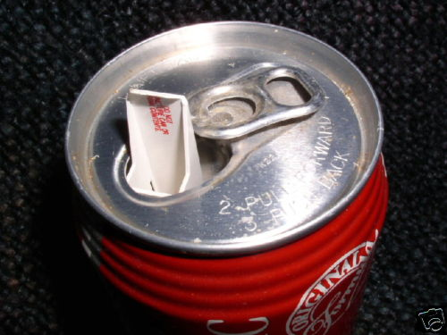 A winning Coca-Cola MagiCan.